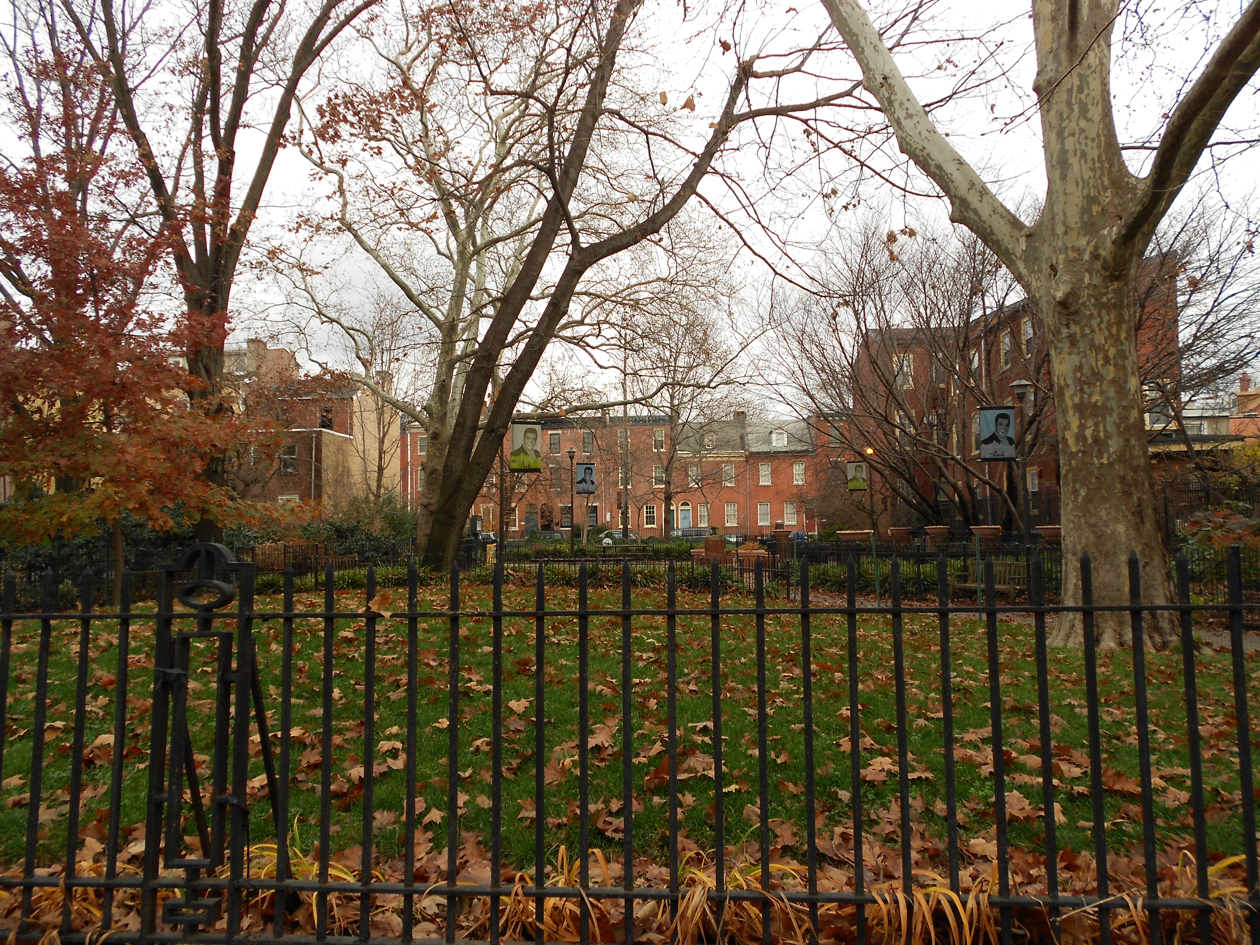 Mario Lanza Park in Philadelphia between Catharine and Queen Street, part of block between 2nd and 3rd Street, Philadelphia, PA, USA